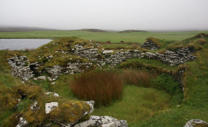 The Broch of Yarrows, near Wick, Caithness, Scotland.